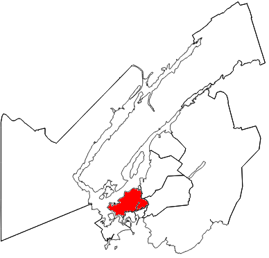 The riding of Saint John Portland in relation to other electoral districts in Greater Saint John.